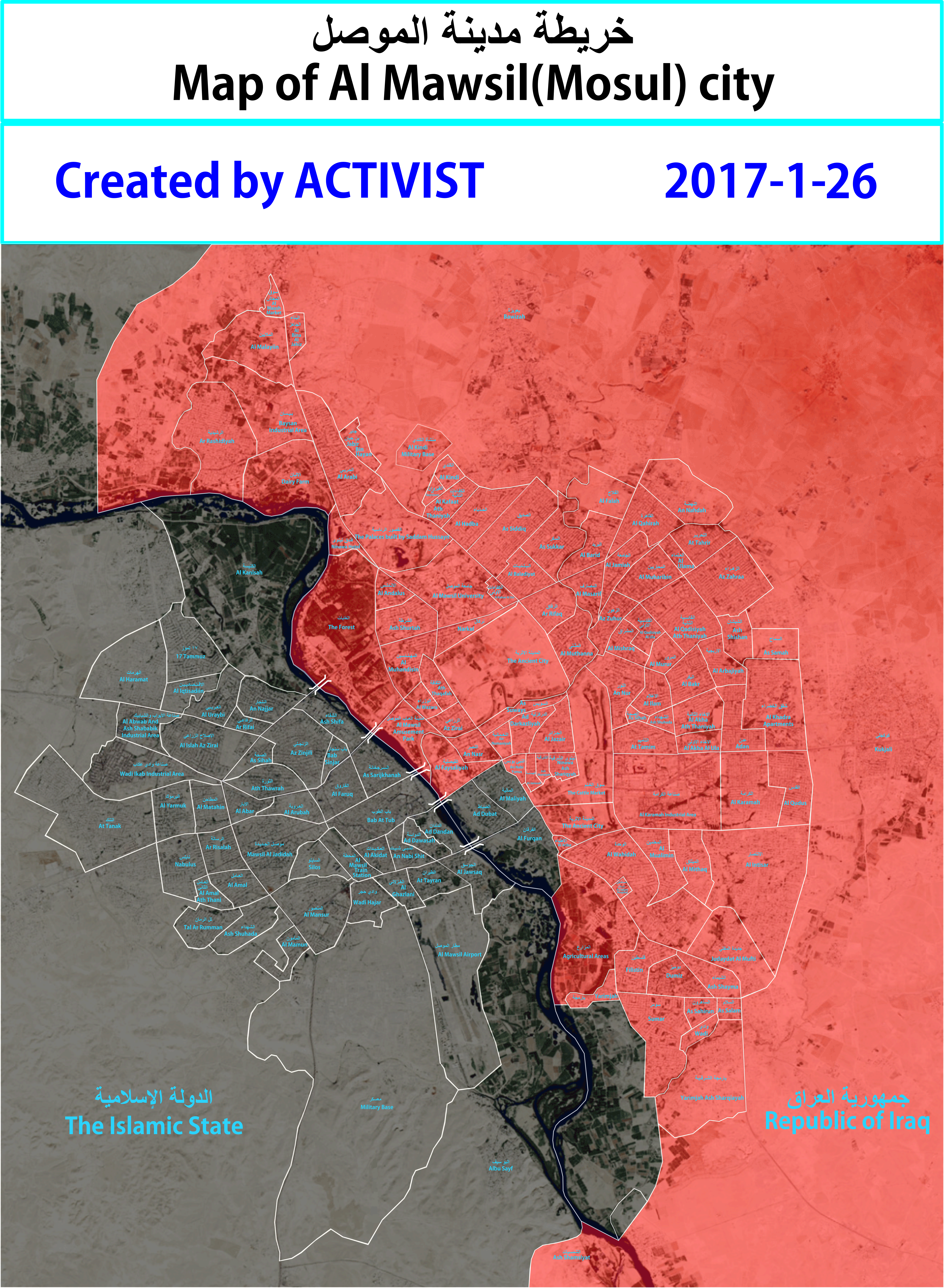 Created by ACTIVIST(=조승희2007416). ACTIVIST is my account in Google Plus.